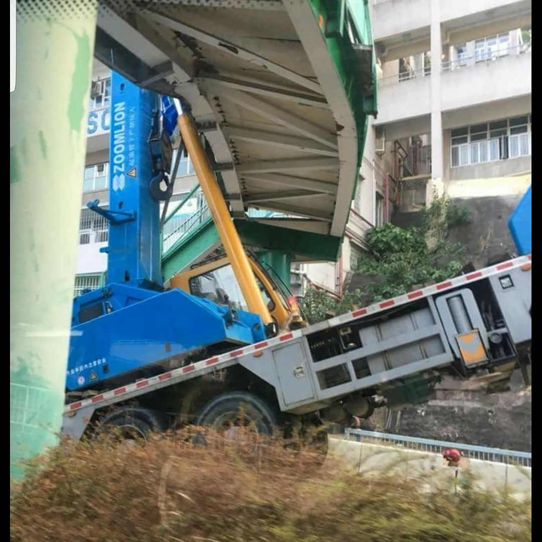 Hing Yik